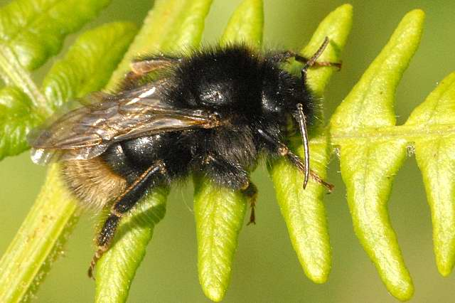 Bombus campestris from Commanster, Belgian High Ardennes .